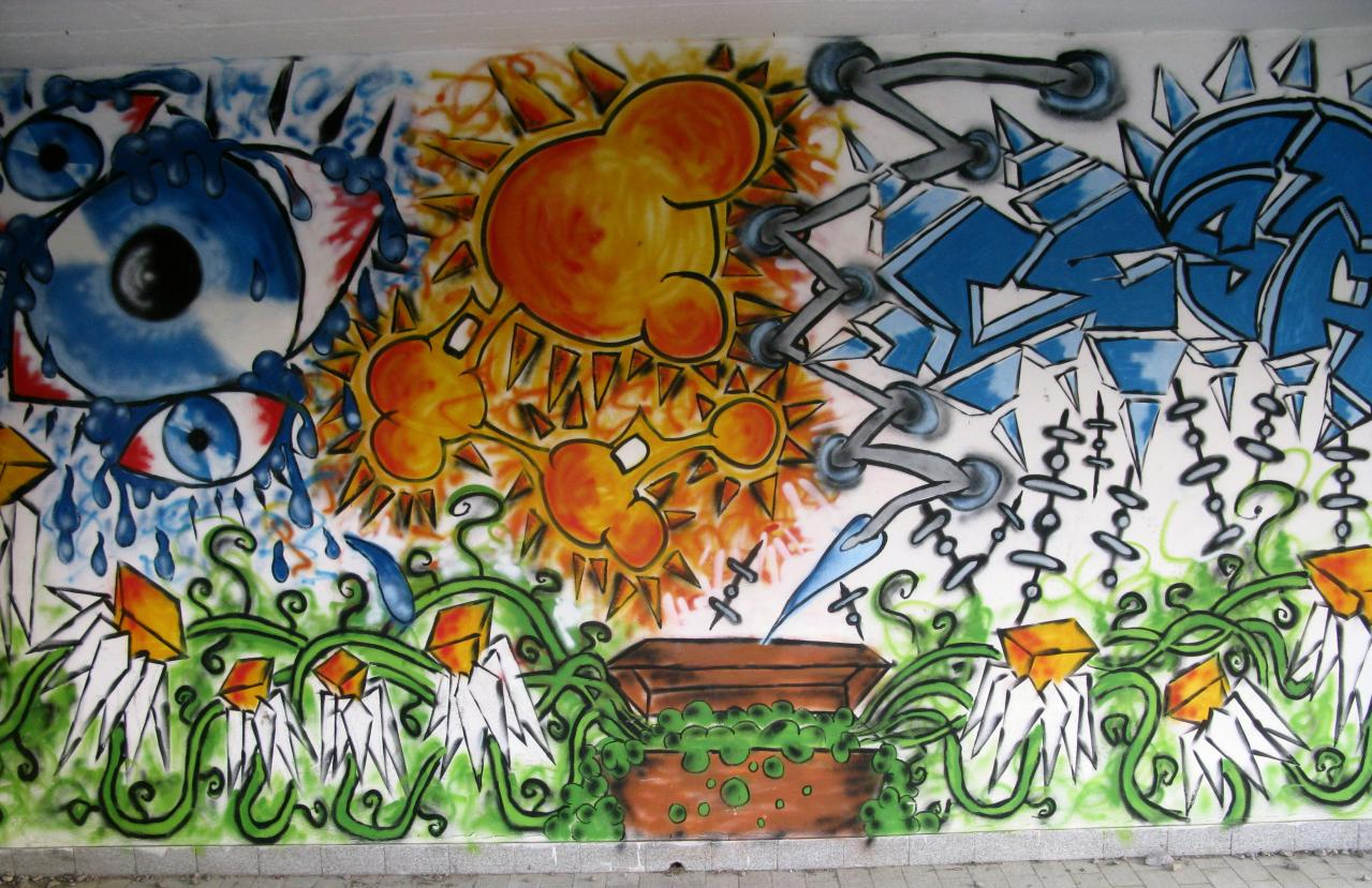 Bus stop waiting shelter. Graffiti.